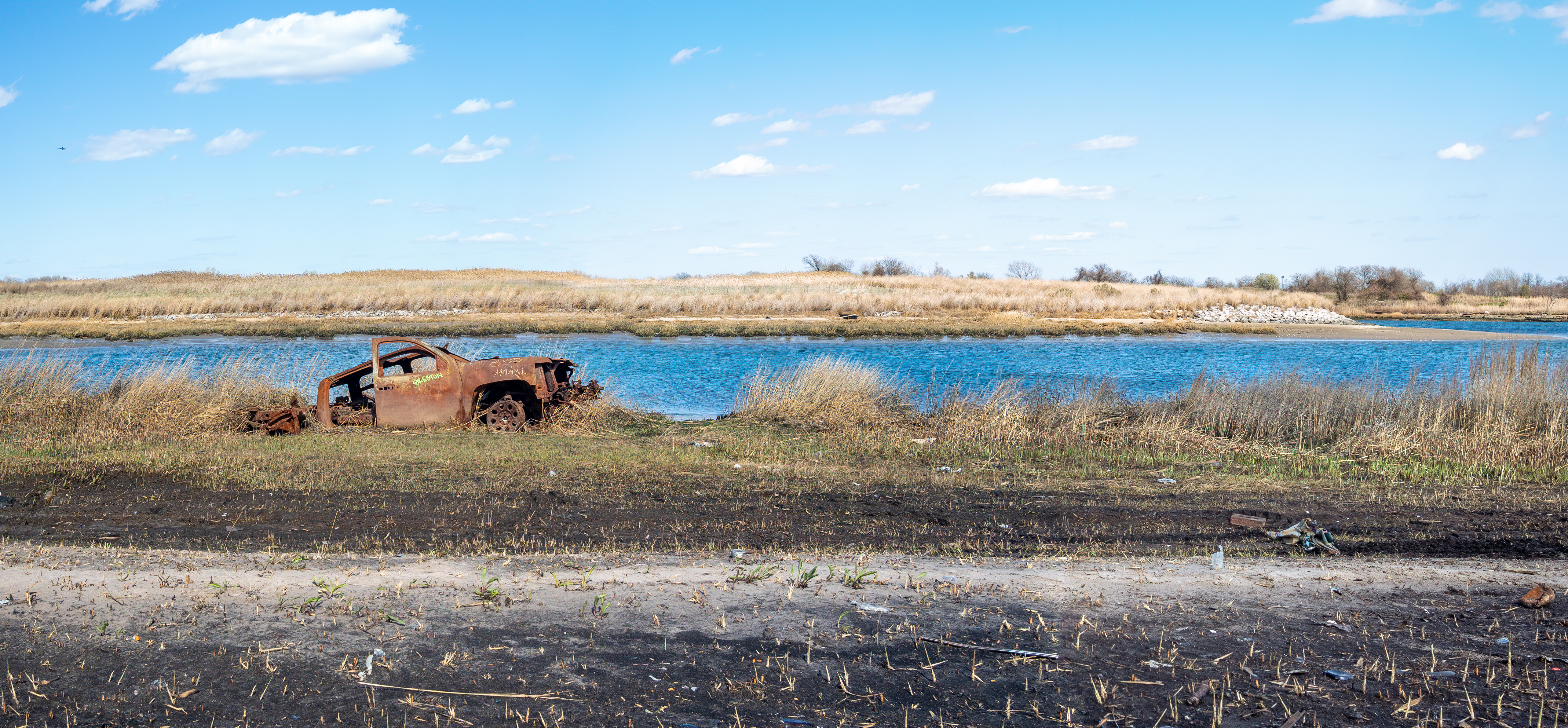 Abandoned car at the Salt Marsh Nature Trail in Marine Park, New York City